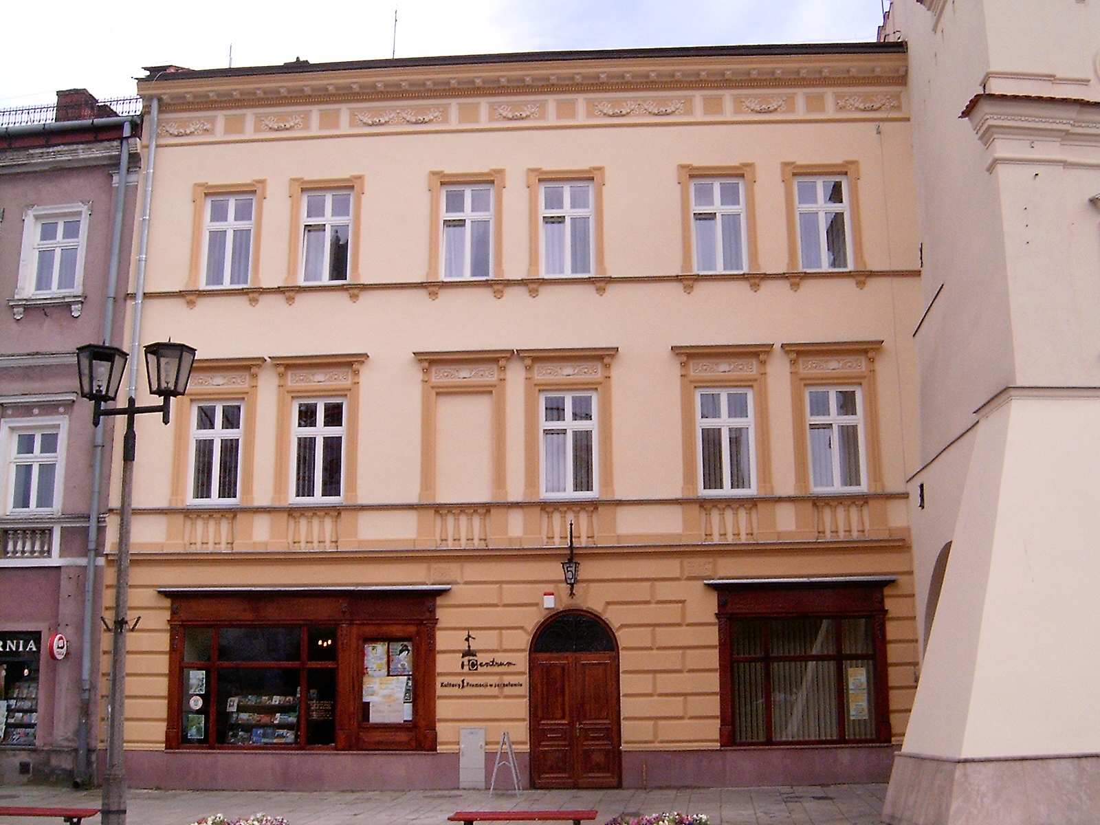 Jaroslaw, Rynek 5, Attawantich tenement house, tourist information centre